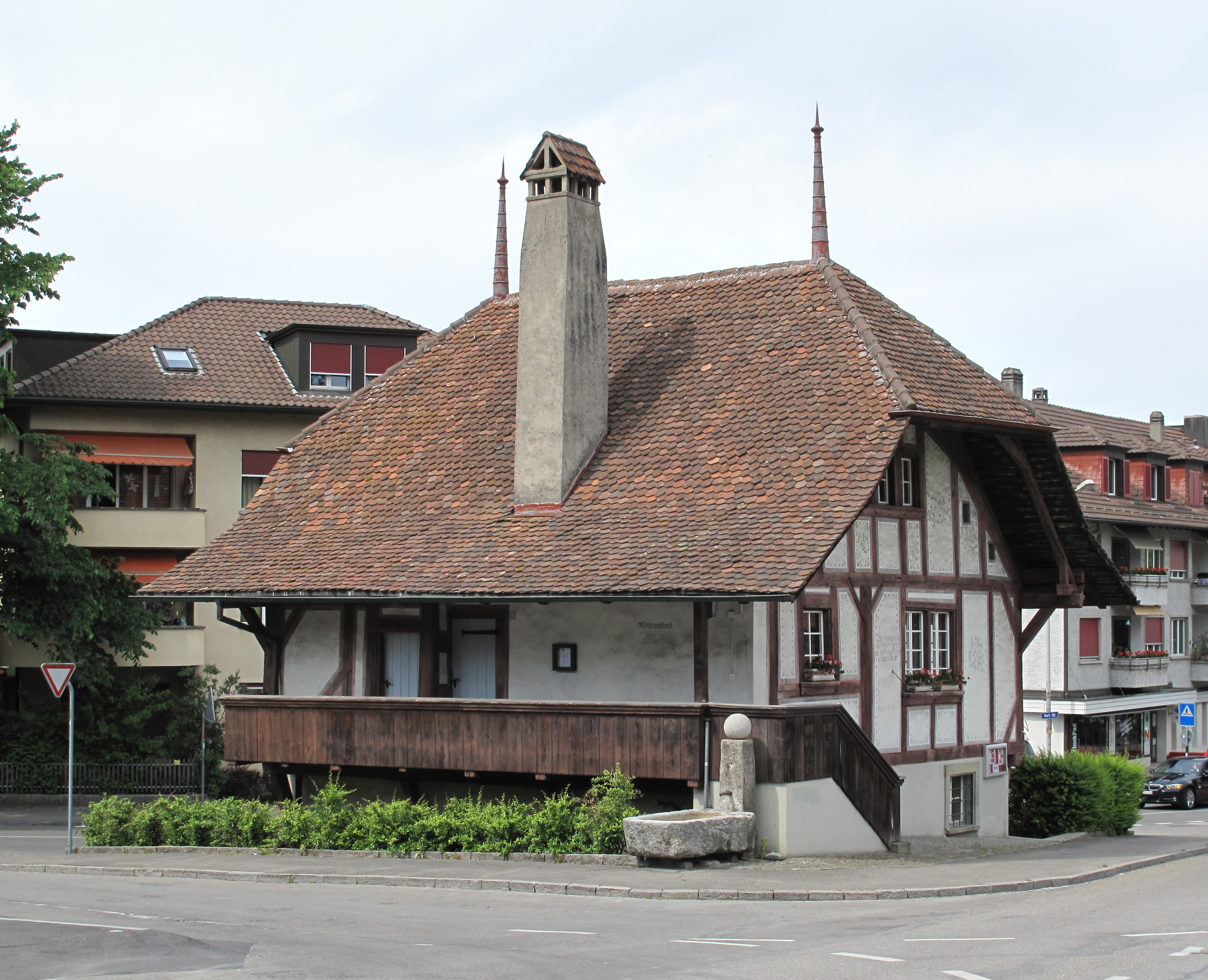 Wabern, Nobshaus